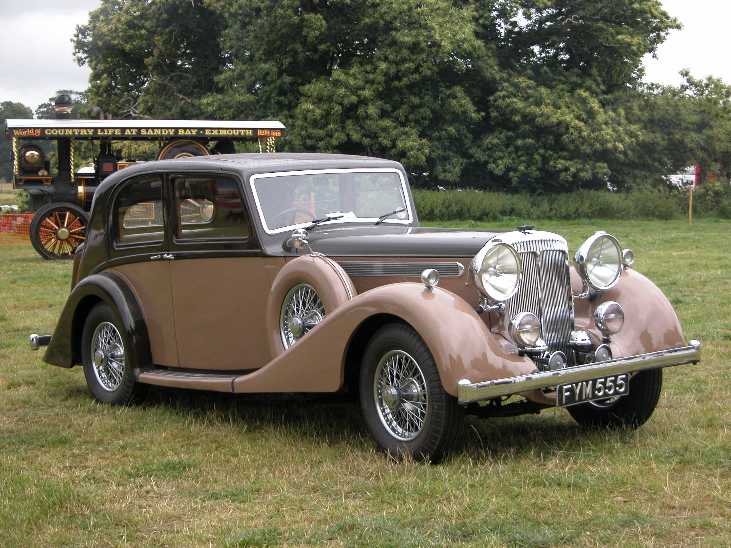 Daimler 4 litre Light-Straight-Eight saloon 1939. Chassis 47820, Engine 88659 saloon body by Vanden Plas. Chassis delivered July 1939 and registered with LCC for the use of the Lord Mayor of London. Delivered complete in October 1939 in khaki. Engine and body aluminium alloy except that front wings are steel. Tax rating 29.8 hp. Bore and stroke: 77.47 x 105 Historic Vehicle Gathering, Crash Box and Classic Car Club of Devon, Powderham Castle, Devon. July 11 2009. Further information